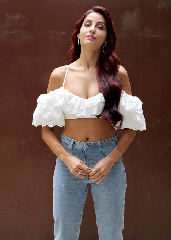 Bollywood actress Nora Fatehi snapped promoting her song in July 20,2019